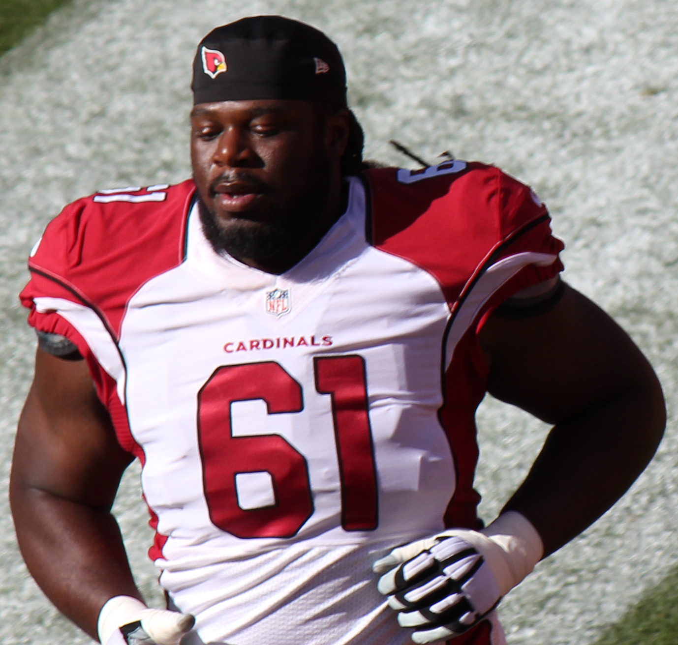 Jonathan Cooper, a player on the National Football League.